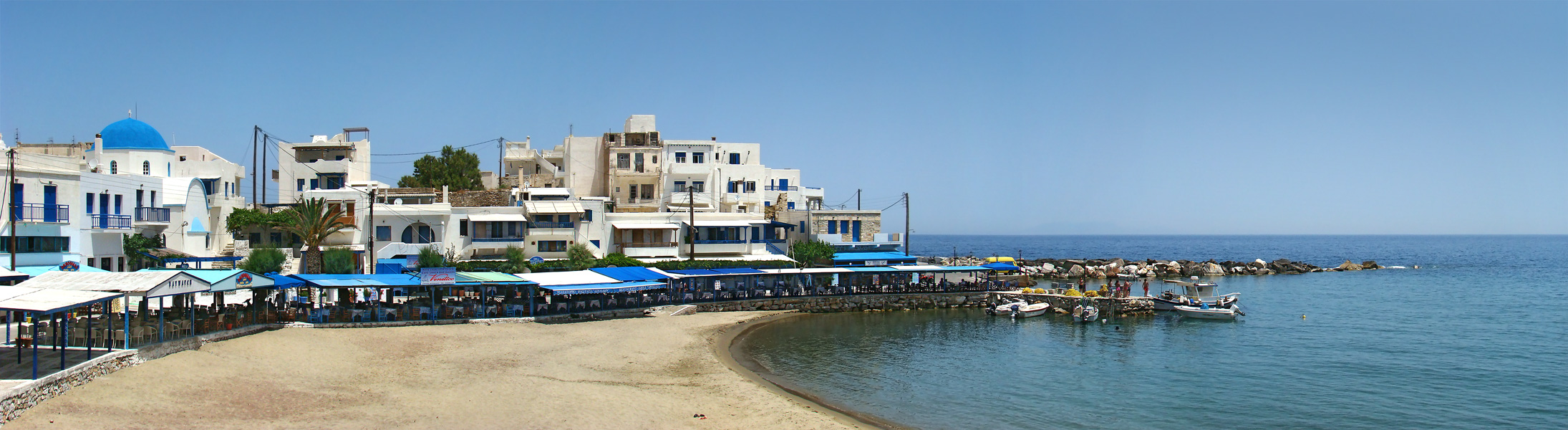 Apollonas, Naxos, Greece.